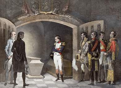 Napoleon at the Frederick's tomb (1806)